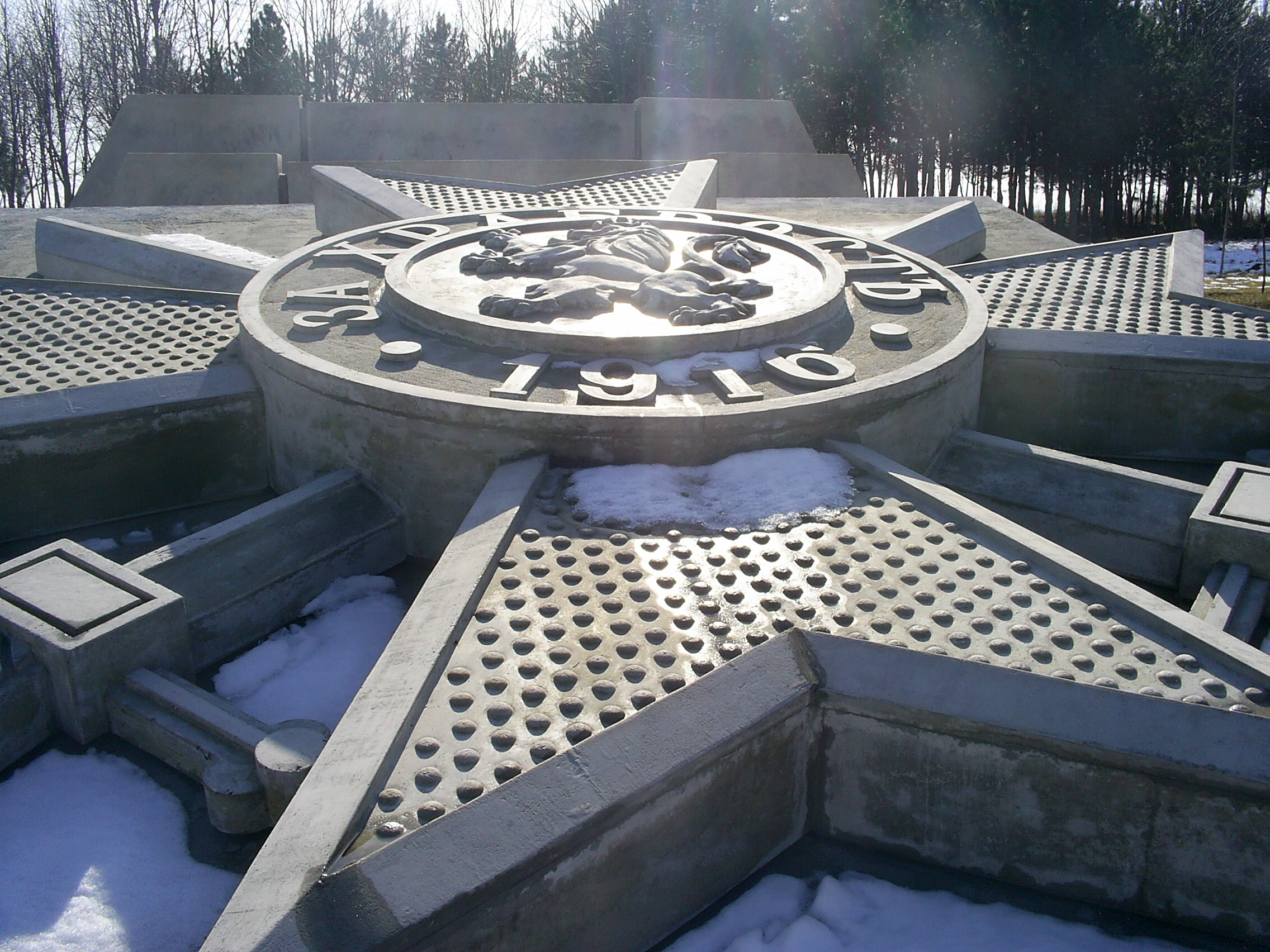 Memorial of the Tutrakan battle in the Military cemetery of Tutrakan, Bulgaria